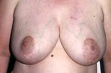 Engorged breasts of mature female while nursing